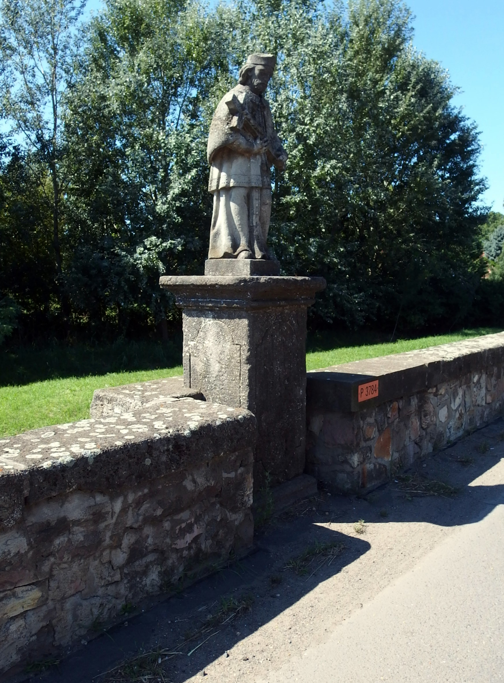 Nepomuk Saint John statue in Tarnaméra, Hungary